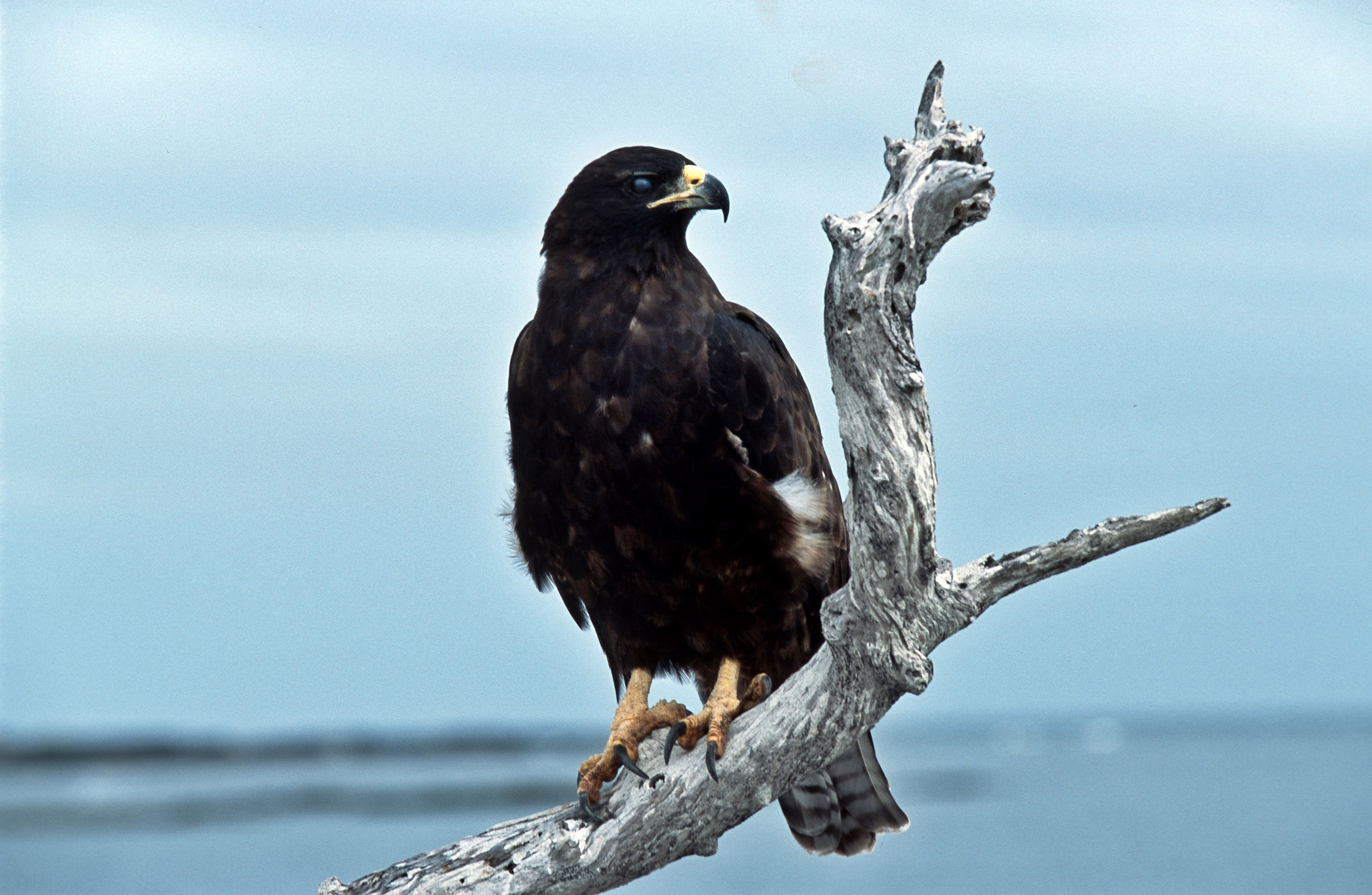 Galápagos Hawk (Buteo galapagoensis) on Fernandina Island